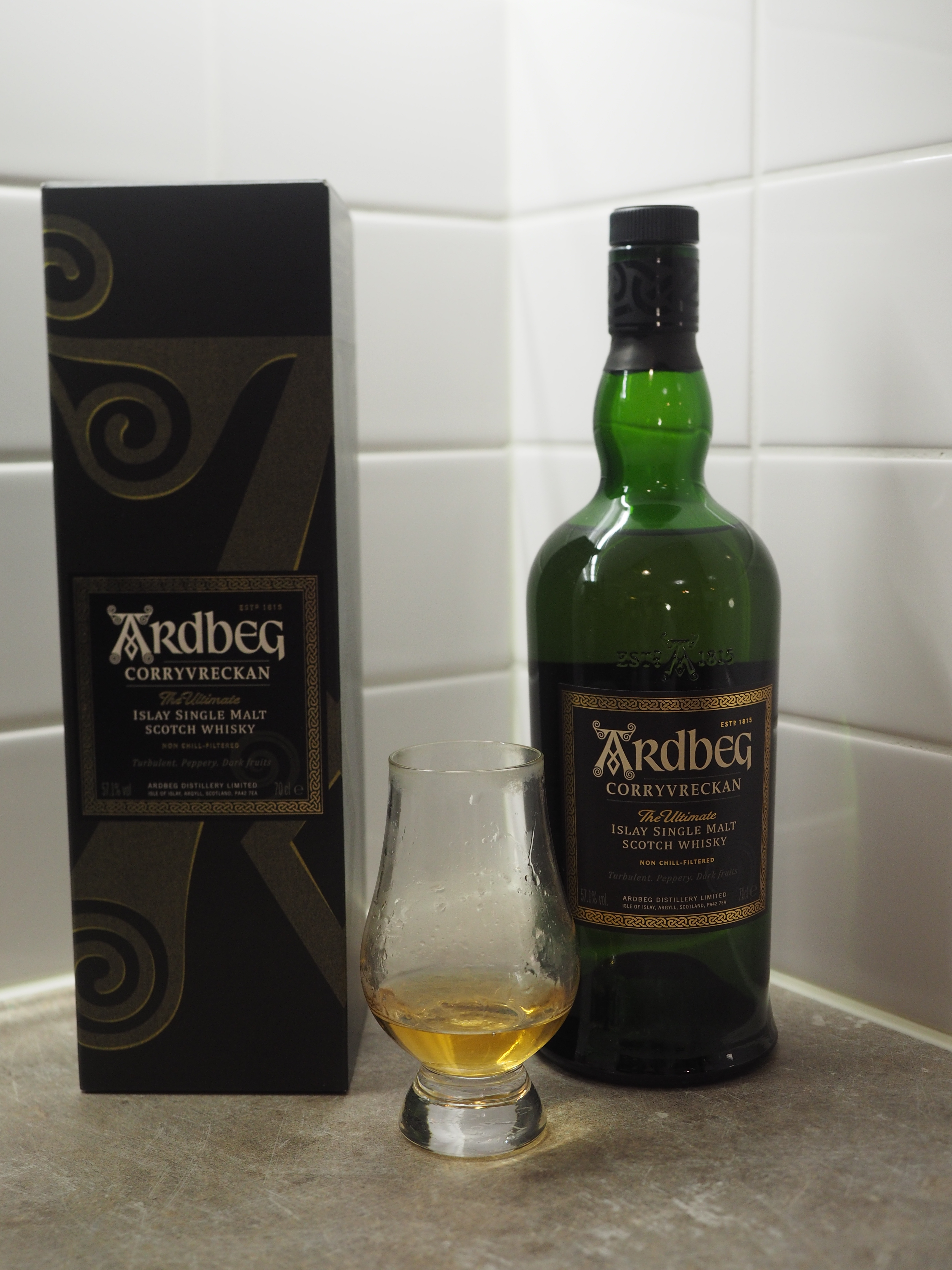 A bottle of Ardbeg Corryvreckan single malt Scotch whisky with its decorative and protective casing, with a small amount of the whisky poured into a whisky glass.